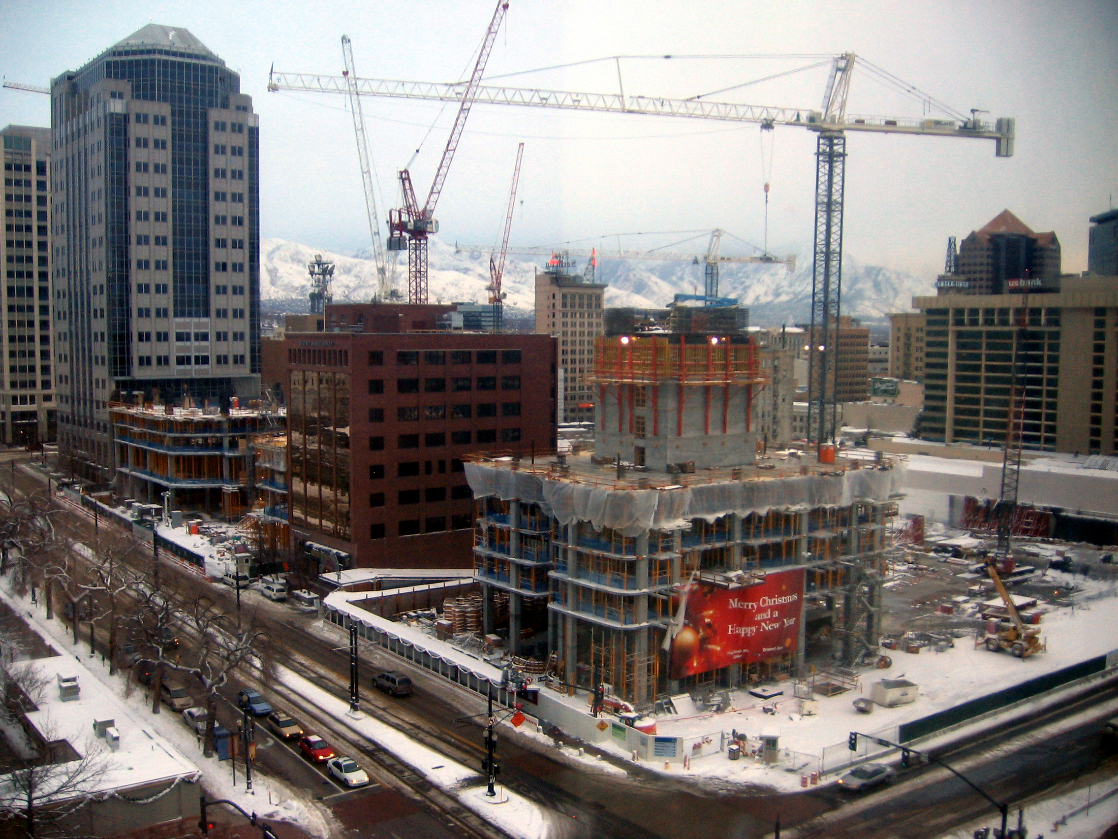 Construction on the Crossroads block of the City Creek Center project in Salt Lake City, Utah, United States. Six large construction cranes can be seen in this view.